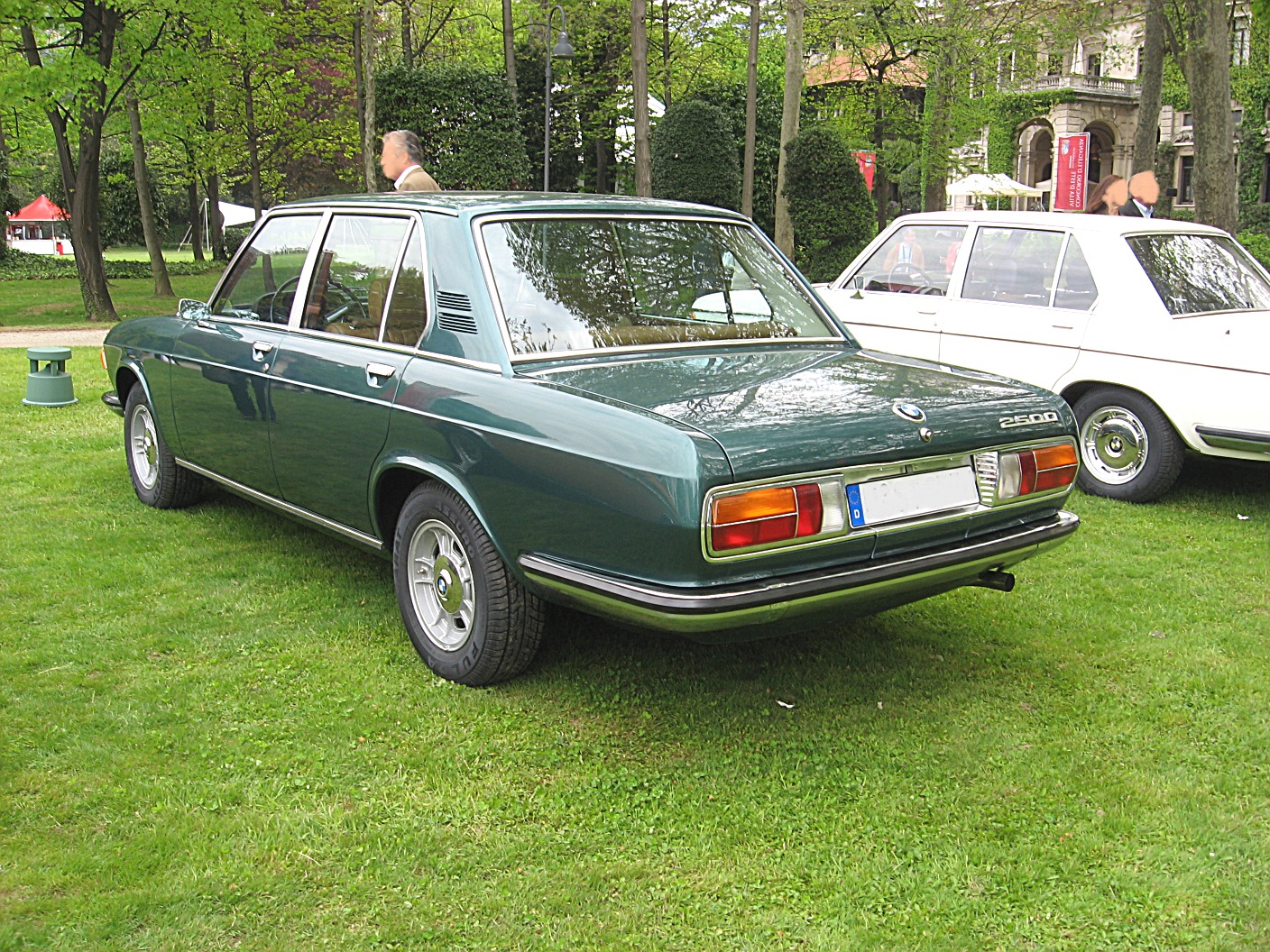 Subject:BMW 2500 E3 Author:Luc106 Date:April 27th, 2008 Event:Concorso d’Eleganza”Villa d’Este” 2008 Place/Country: Cernobbio (CO), Italy I release all rights in the public domain.